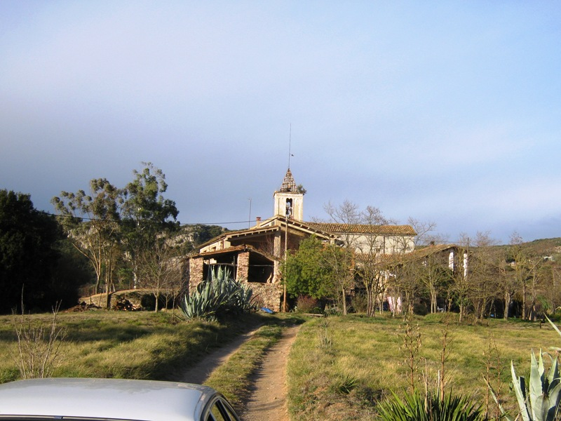 Sant Climent d'Amer old parish church in Amer